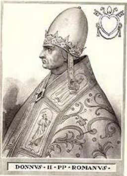 Antipope Donus II